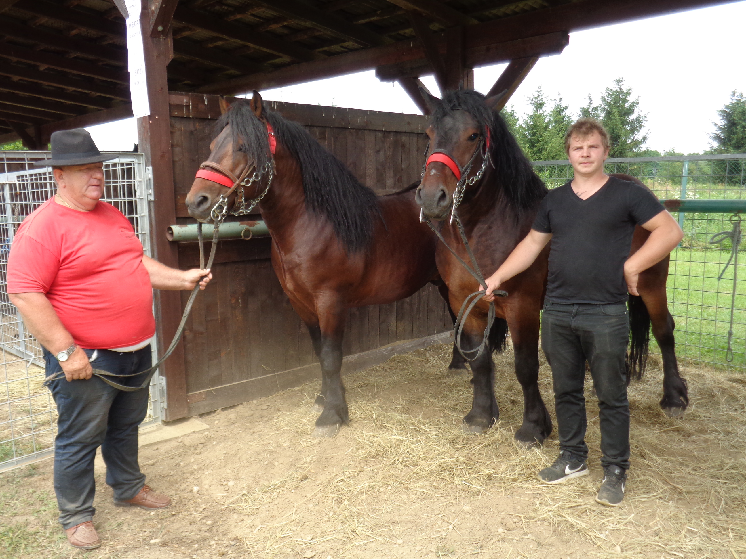 Croatian Coldblood horses, at 2018 MESAP Trade Fair in Nedelišće, Medjimurie County, Croatia